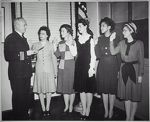 Swearing in of the first African American women to be accepted into the Navy Nurse Corps